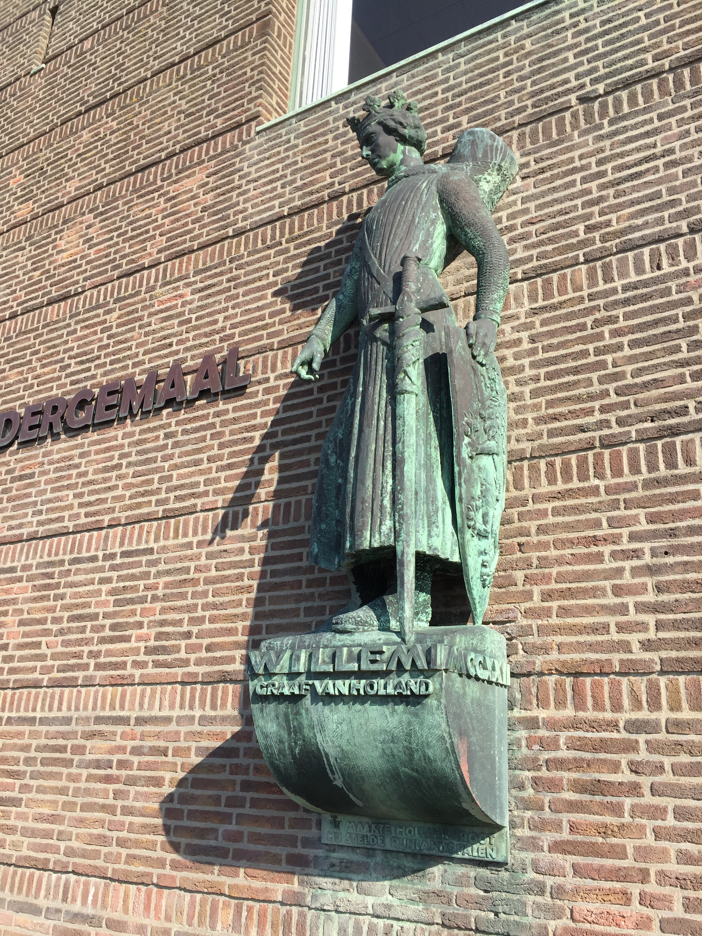 Sculpture of William I of Holland at Willem-Alexandergemaal, Katwijk (South Holland)